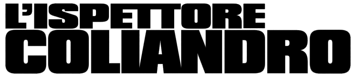 Logo of the Italian TV series L'ispettore Coliandro (2003).